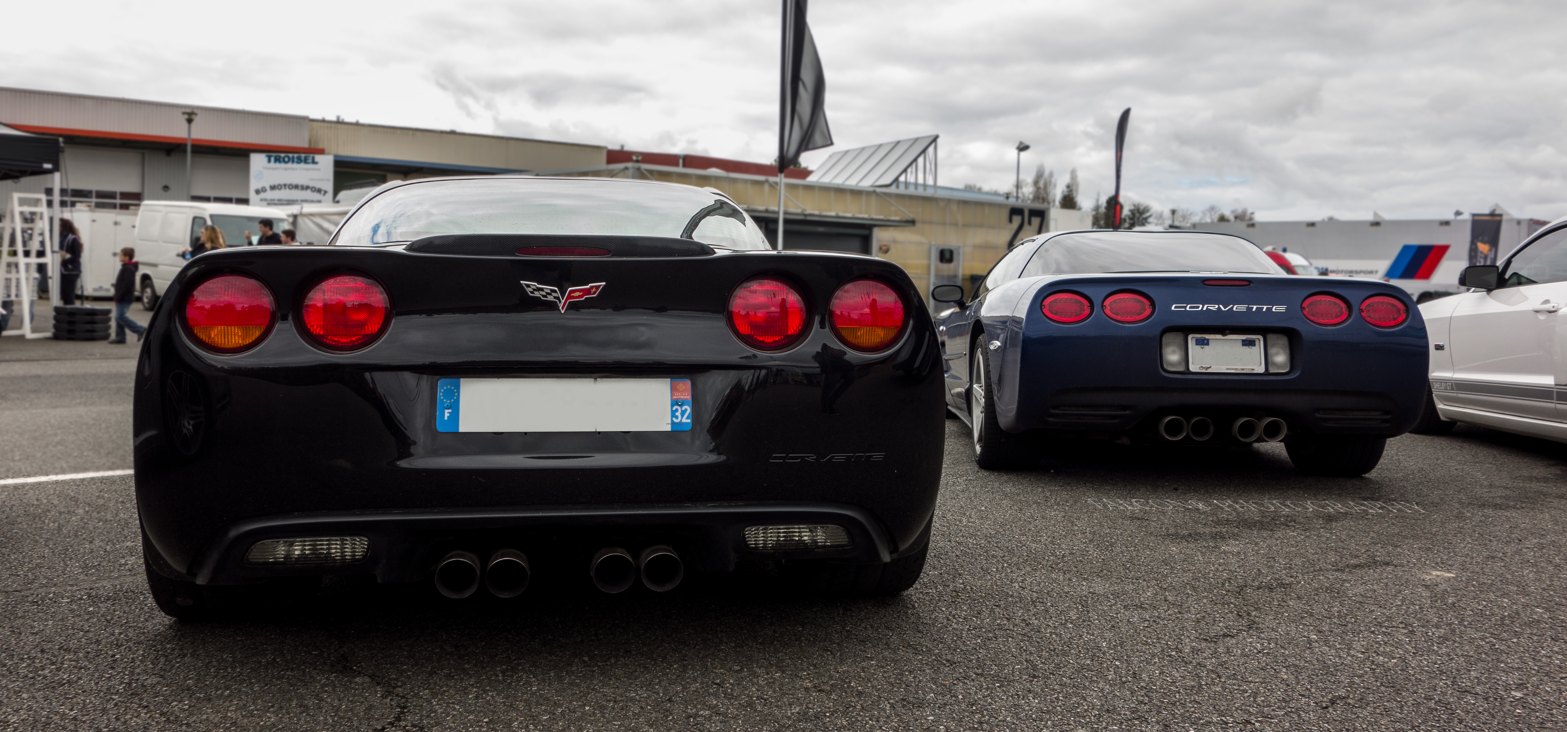 Bad Ass